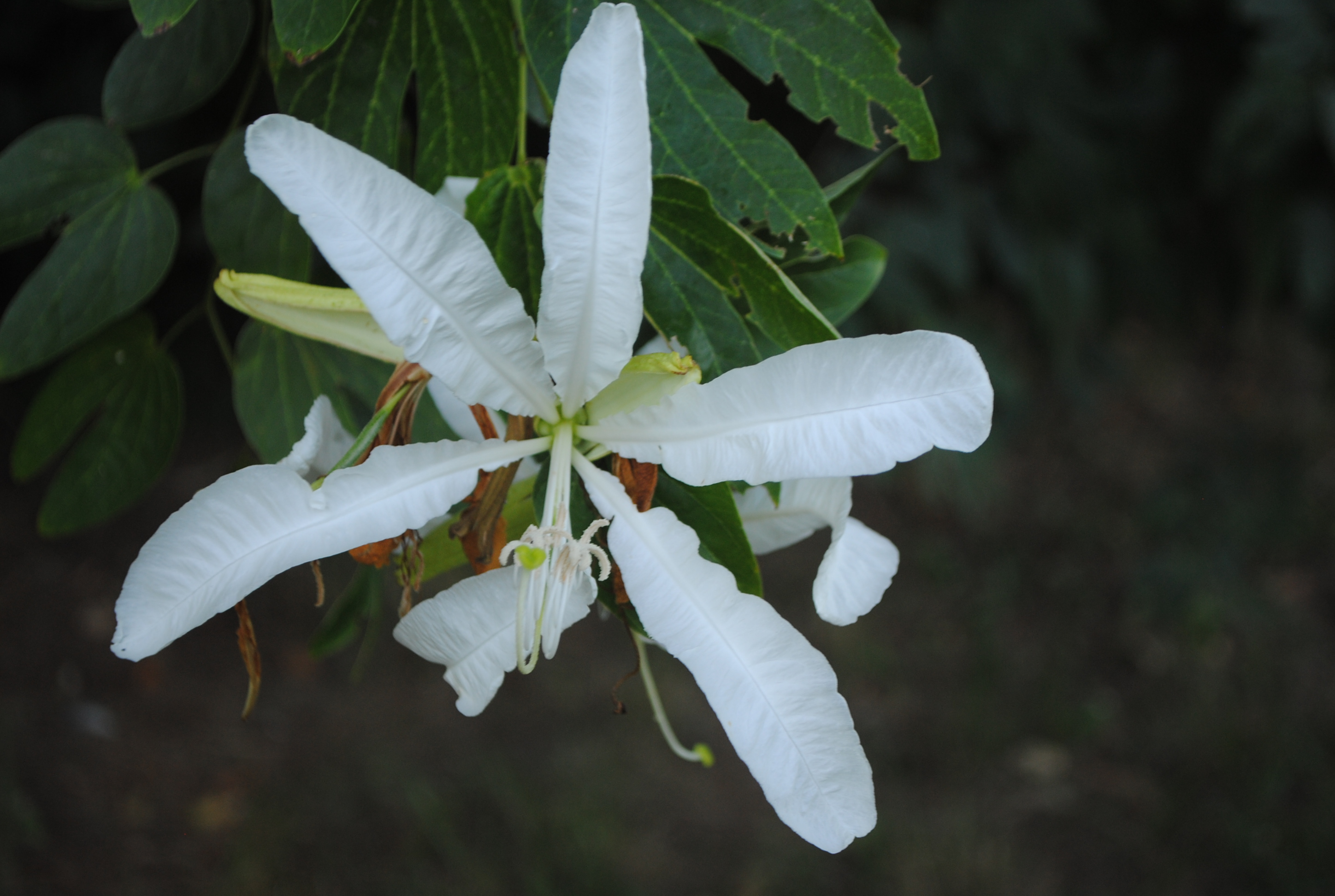 Flower of Bauhinia forficata at Parque Villarino, Zavalla, Santa Fe province, Argentina